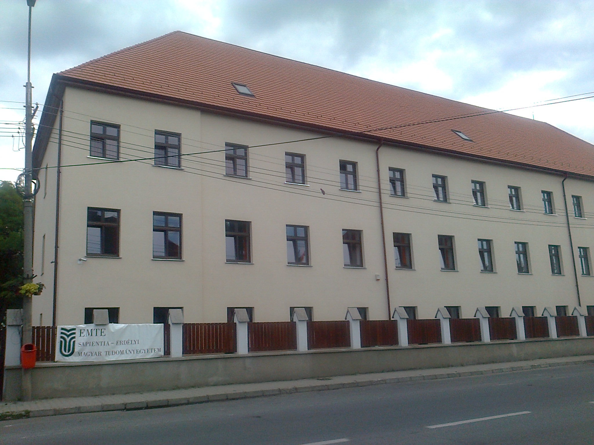 Building of Sapientia University in Sf. Gheorghe